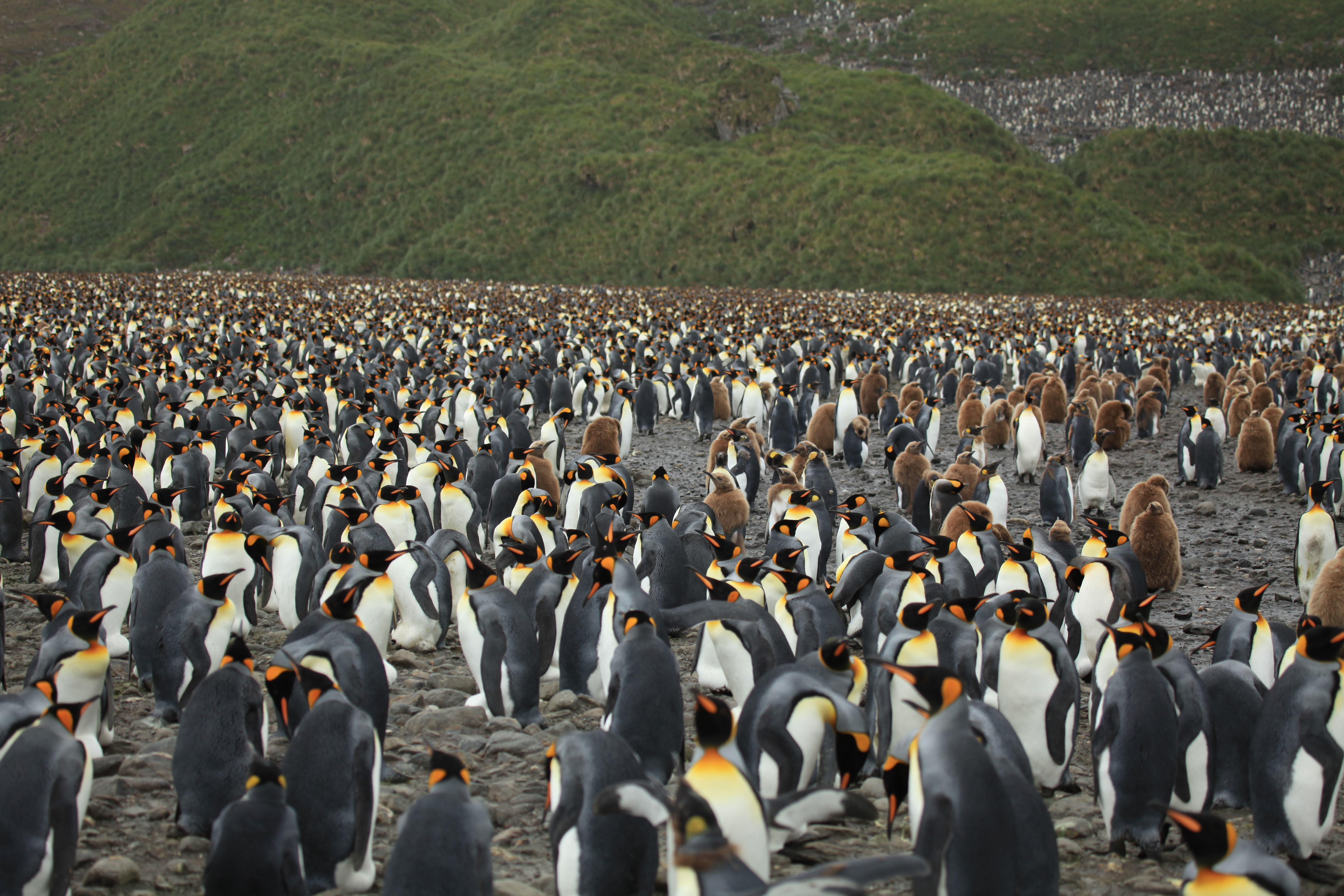 200,000 King Penguins in one place!